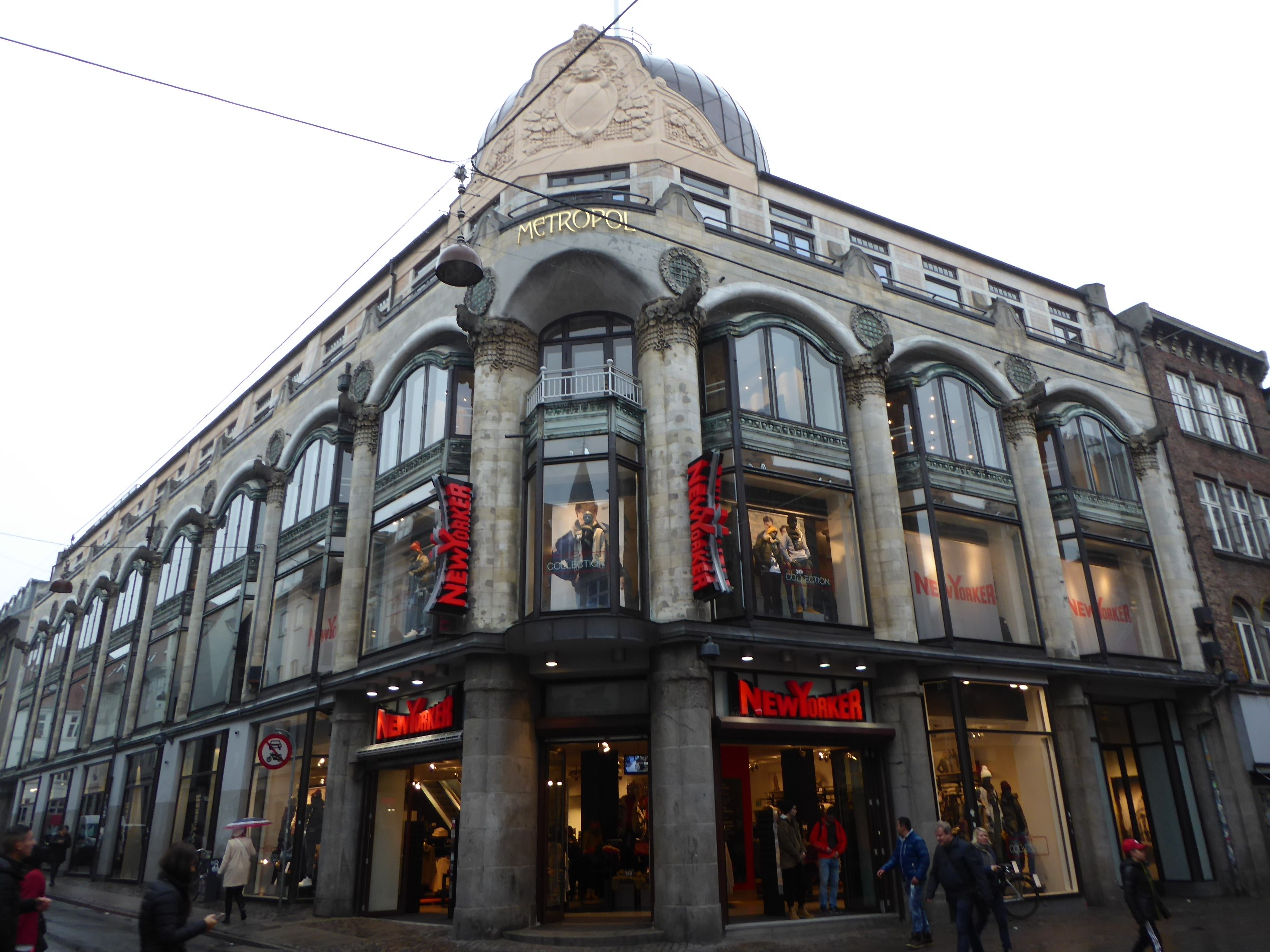 The clothing shop NewYorker in Metropolbygningen at the corner of Kattesundet and Frederiksberggade in Indre By in Copenhagen. The building was originally an department store and later the cinema Metropol.